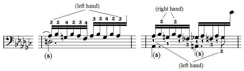 Chopin Etude Op. 10, No. 6: Chopin's original fingering (bars 3, 7)